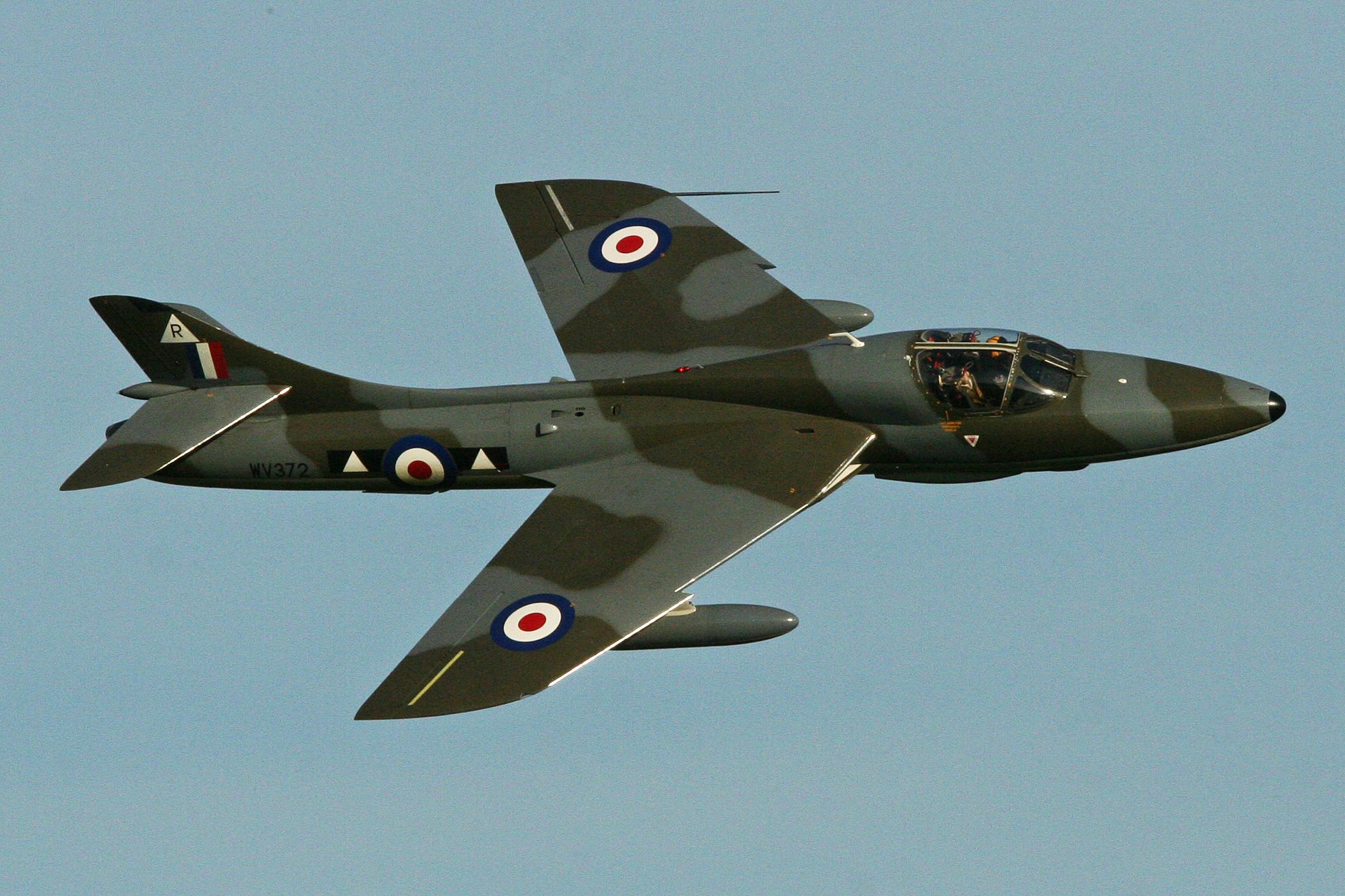 This twin-stick Hunter is beautifully presented in the markings of 2 sqn RAF. She is based at North Weald and operated by Cranfield Hunter Ltd. c/n 41H-670815. Seen displaying at Old Warden during the 2013 Autumn Airshow. 06-10-2013